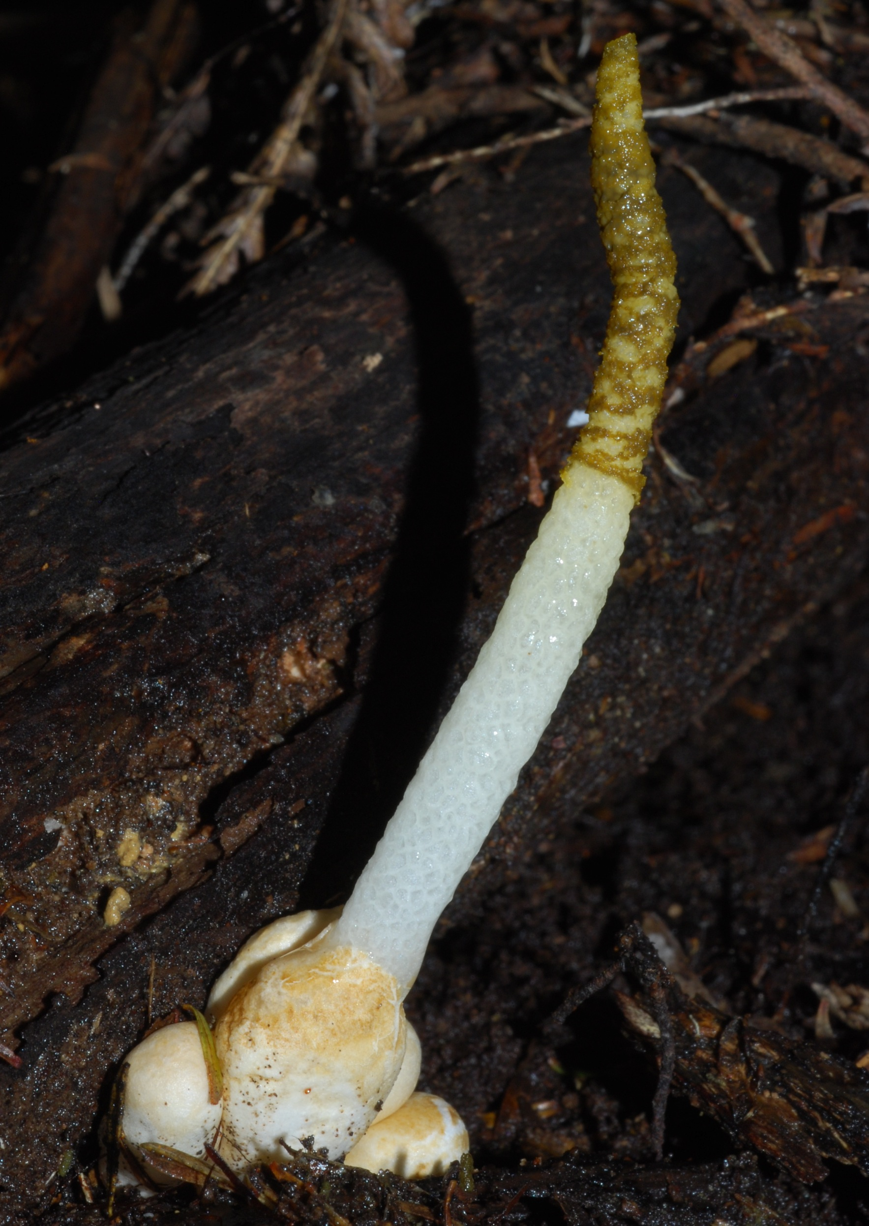 Mutinus borneensis Location: Auckland, New Zealand Notes: Fruiting from a decomposed branch from Kunzea ericoides in native New Zealand forest.